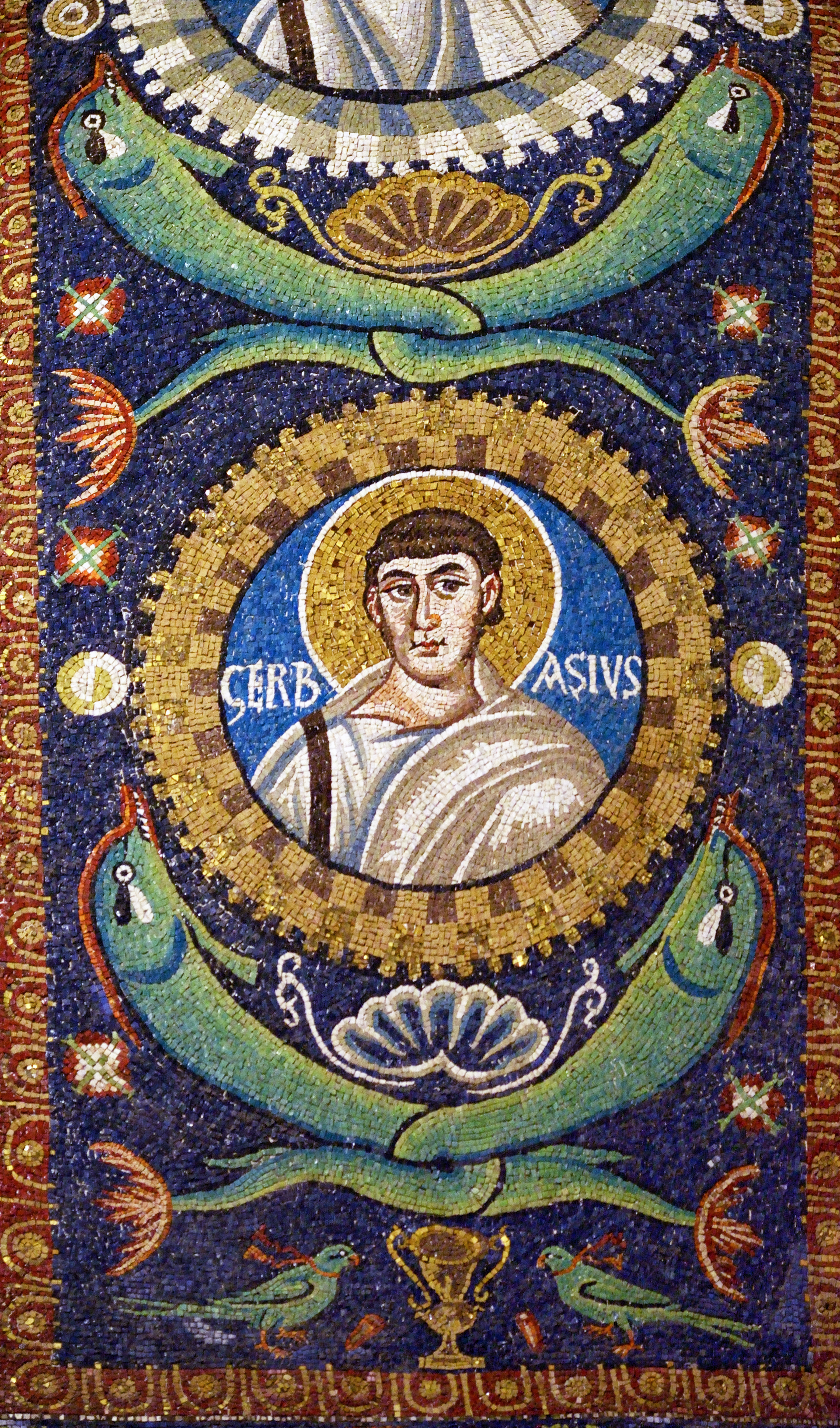 Martyr Gervasius. Detail of the mosaic on the entrance arch of Presbytery. Basilica of San Vitale, Ravenna, Italy